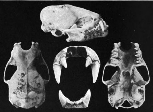 Lasiurus xanthinus, formerly Dasypterus ega xanthinus